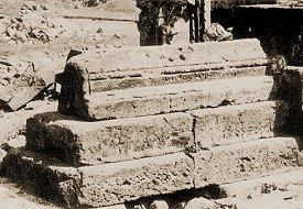 King Ashot's tomb